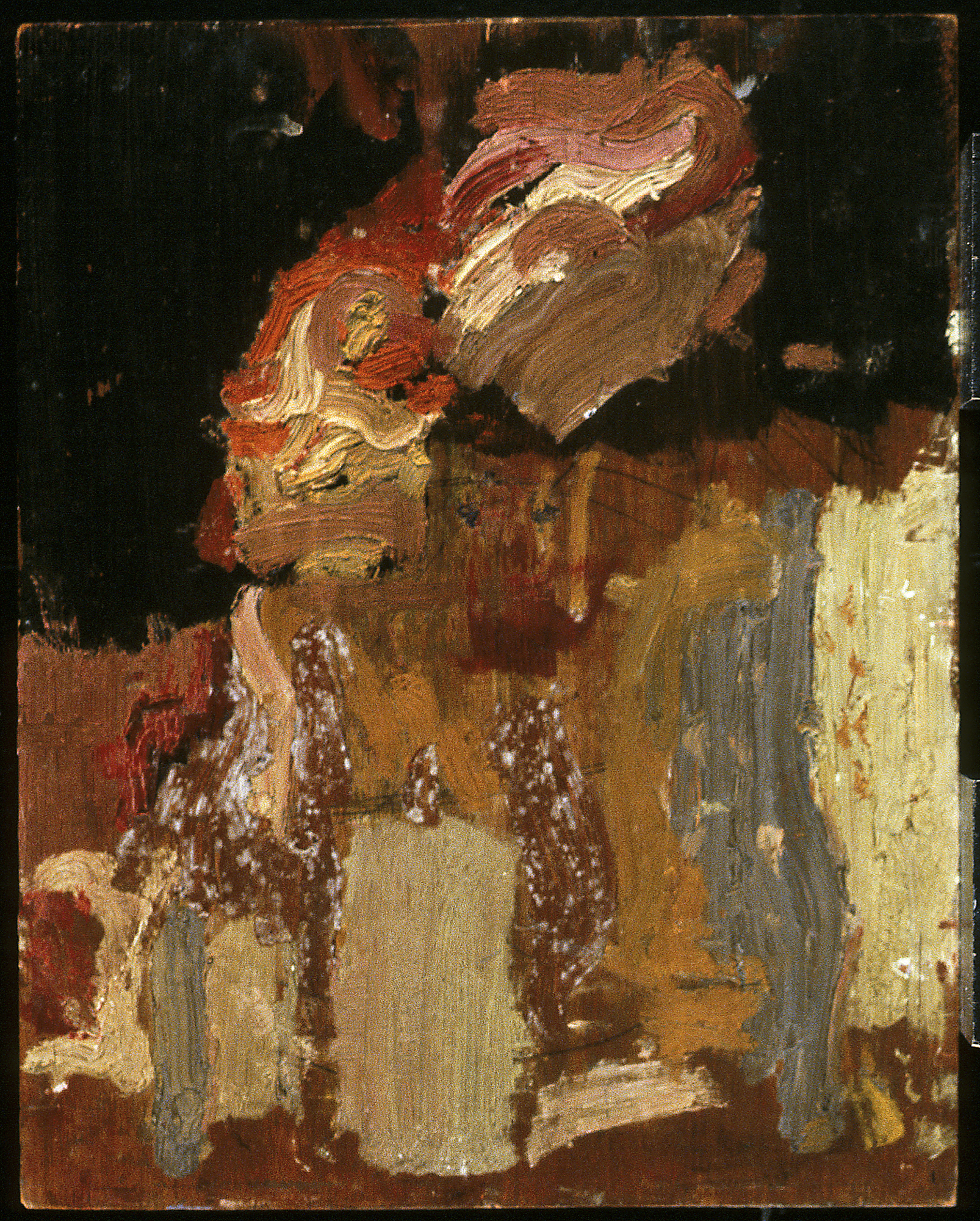 Tom Thomson, Unfinished Sketch, Fall 1916